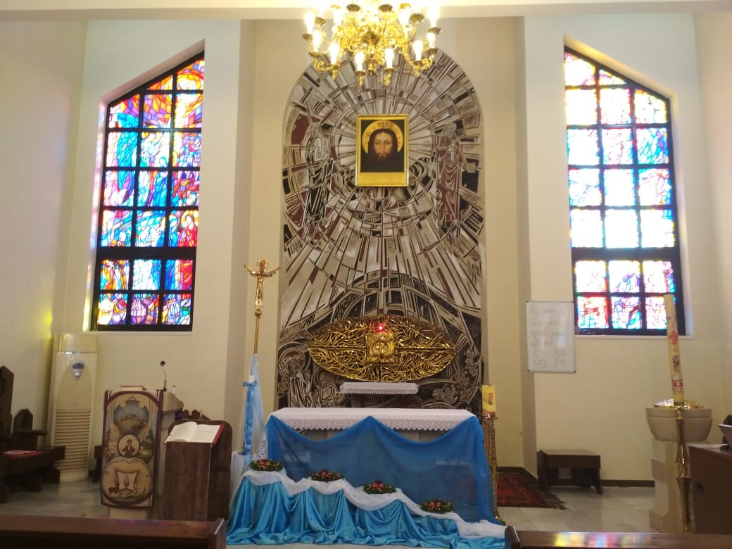 Roman Catholic church of the transfiguration of Jesus Christ in Atyrau, Kazakhstan